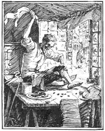 Illustration by H.J. Ford from the 1889 edition of 'The Blue Fairy Book' edited by Andrew Lang